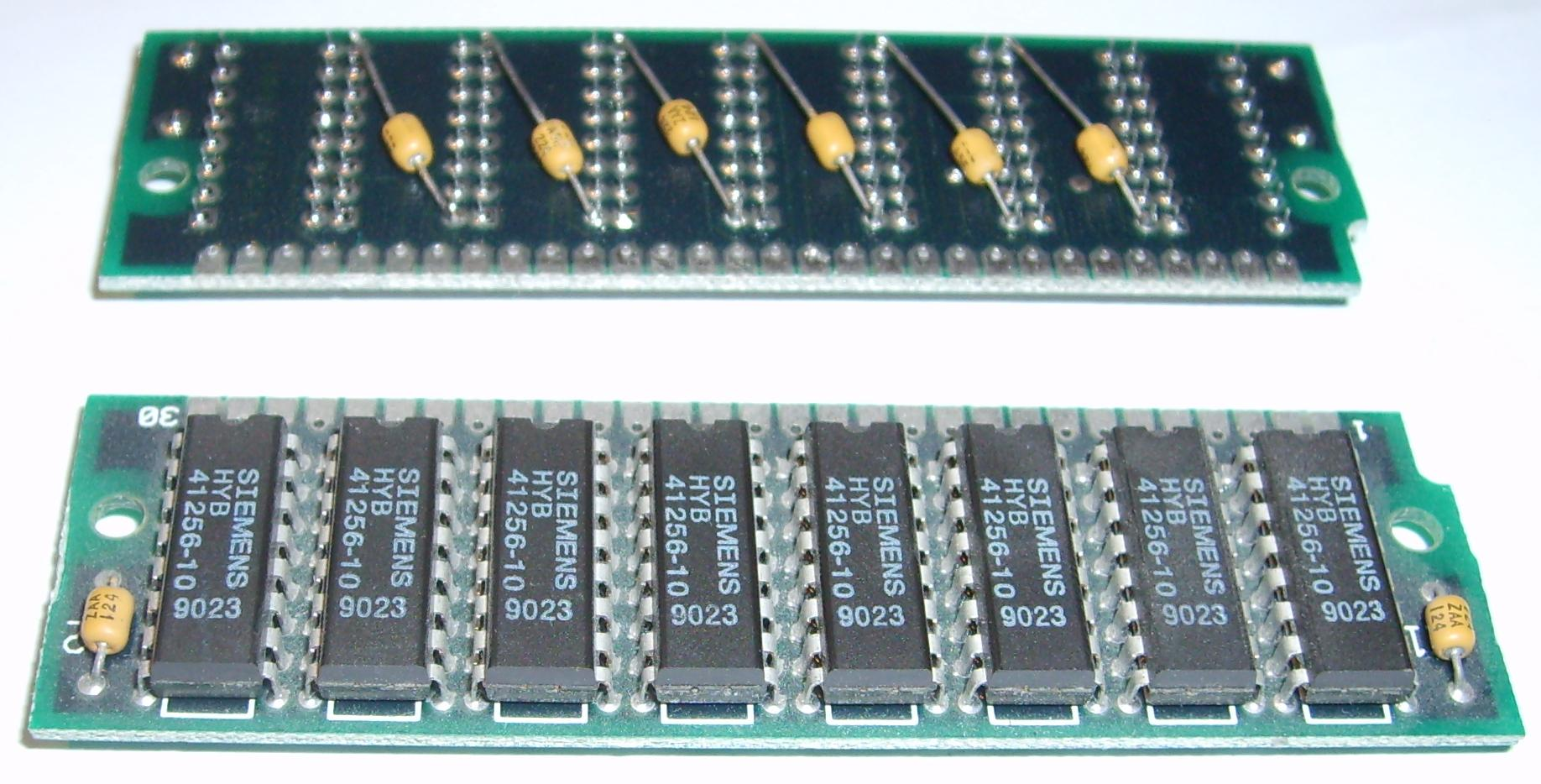 256kB RAM memory (30 pin SIMM), taken from my (very) old Atari STE. It's dimension is 88x26mm.